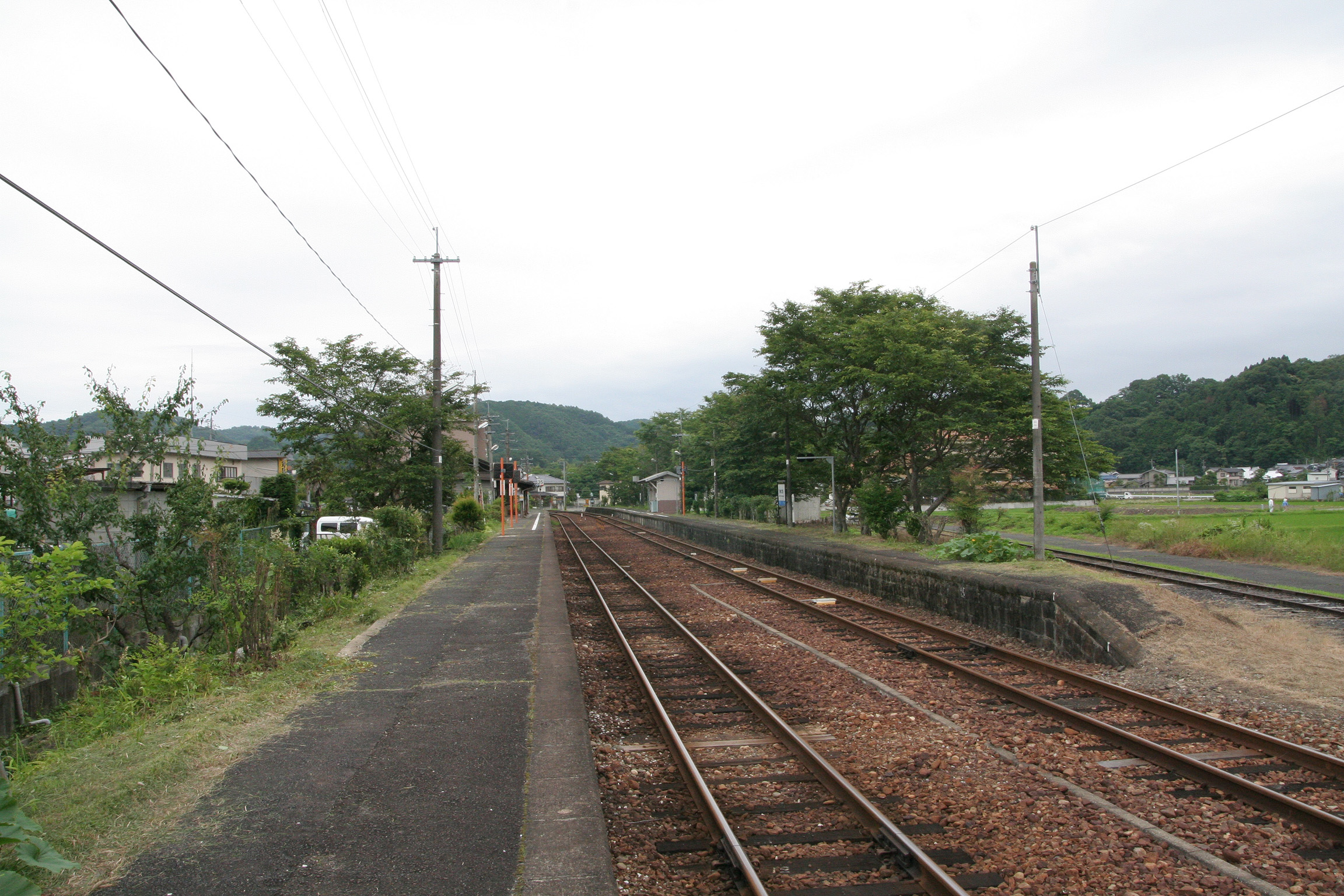 West Japan Railway Kishin Line Mimasaka-emi Station enclosure